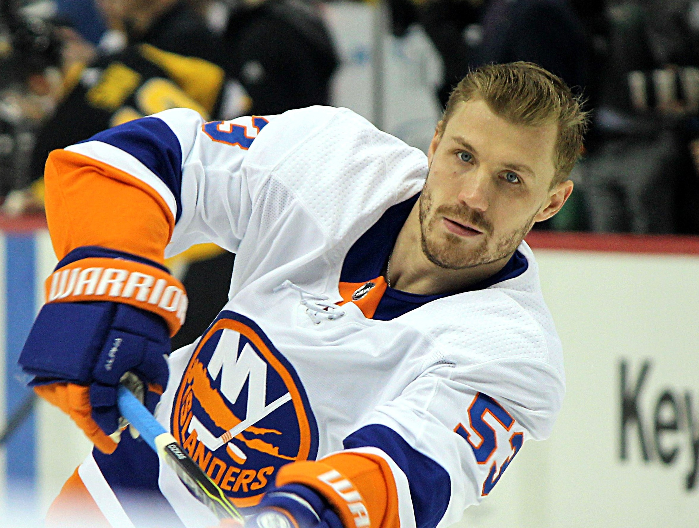 New Yorks Islanders forward Casey Cizikas during a game against the Pittsburgh Penguins at PPG Paints Arena in Pittsburgh, PA. Saturday, March 3, 2018.